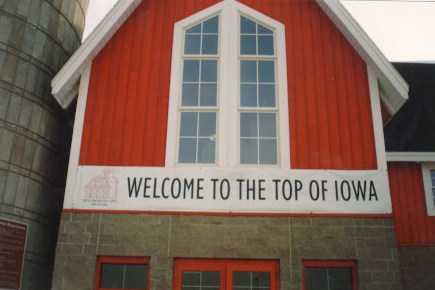 The "Top of Iowa" welcome center, in Northwood, Iowa, off Interstate 35.